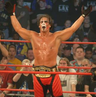 Professional wrestler Sting in 2006.